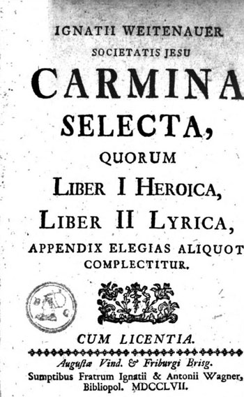 Carmina Selecta, front page of a book with baroque style poems, songs and plays by the austro-bavarian Jesuit Ignaz Weitenauer